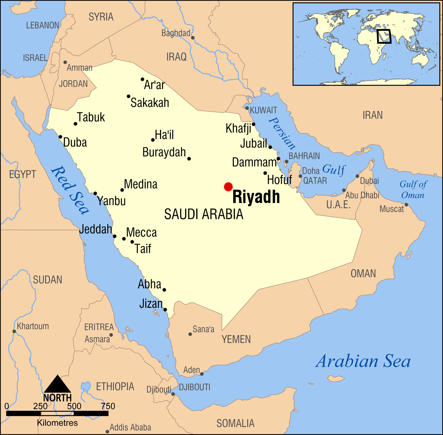 Locator map of Riyadh, capital city of Saudi Arabia. Created by NormanEinstein, April 20, 2007.